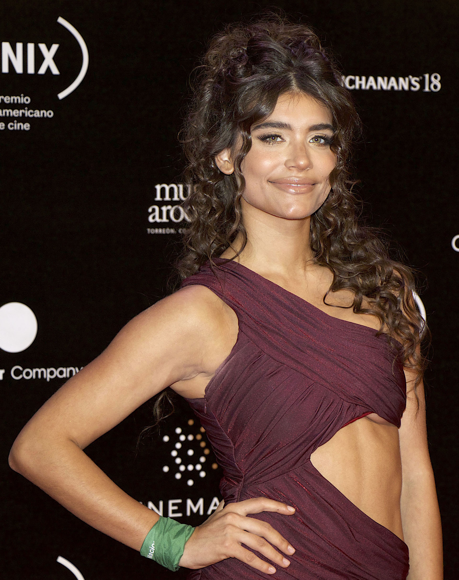 Eva De Dominici on the red carpet of Fenix Awards 2018. 7, November, 2018. Mexico City. Picture by Milton Martinez / Secretaria de Cultura CDMX.